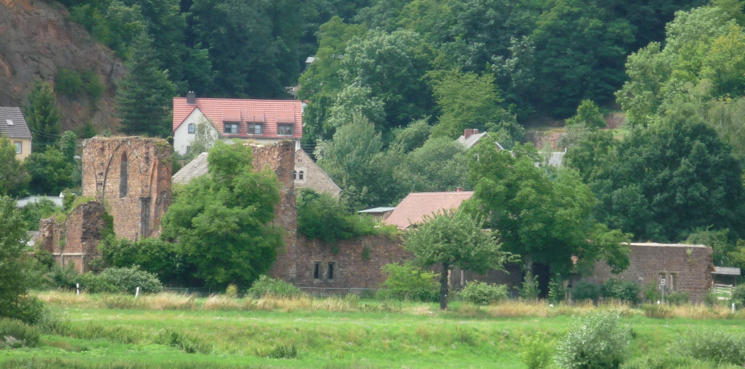 Remains of cloister Heilig Kreuz in Meißen